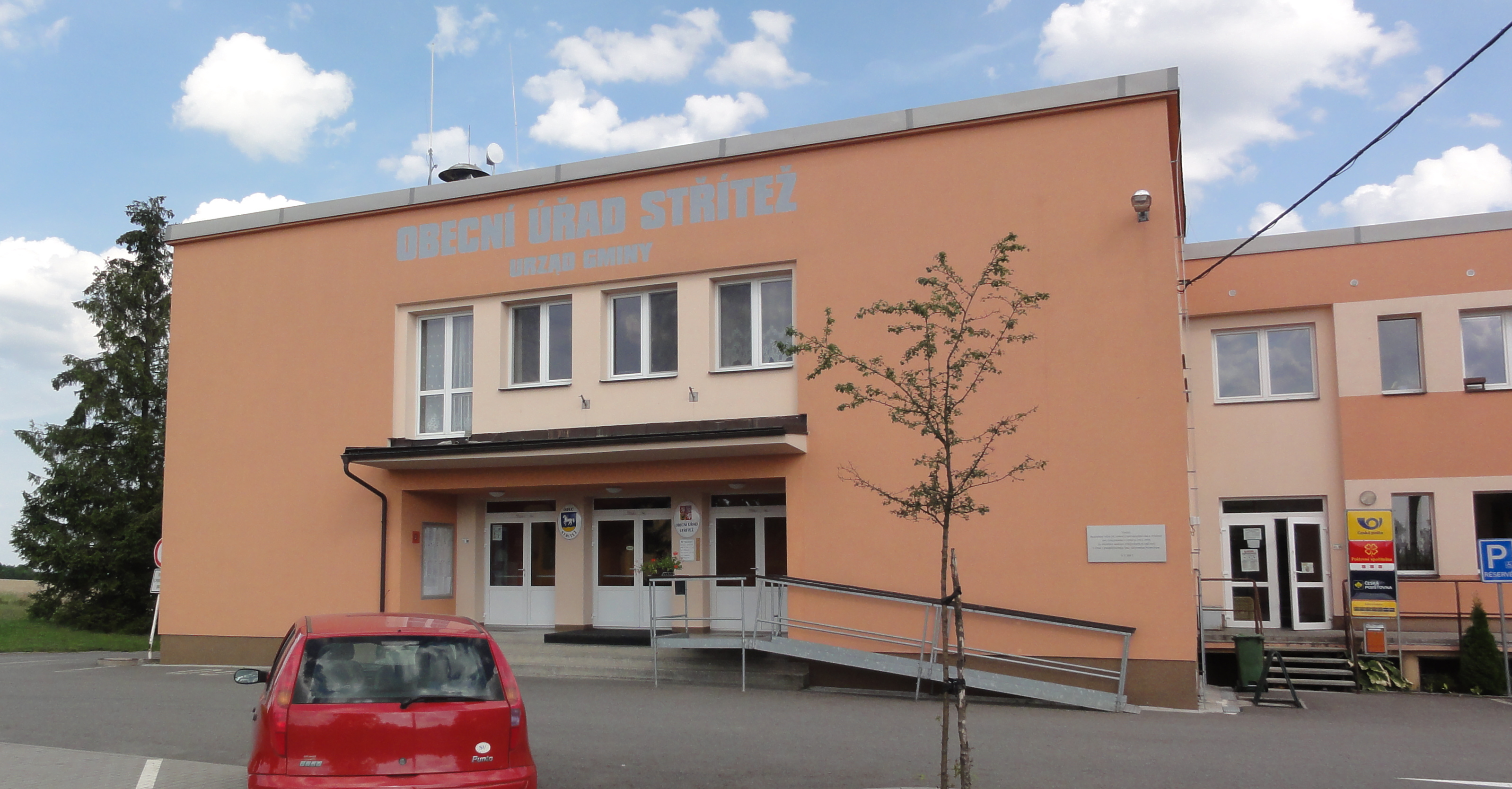 Střítež (Trzycież) municipality